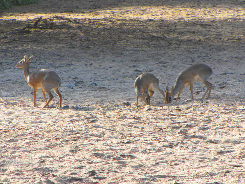 Kirk's Dik-dik (Madoqua kirkii) family, Lake Manyara NP, Tanzania